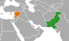 Map showing location of Syria and Pakistan, created for Pakistan–Syria relations article